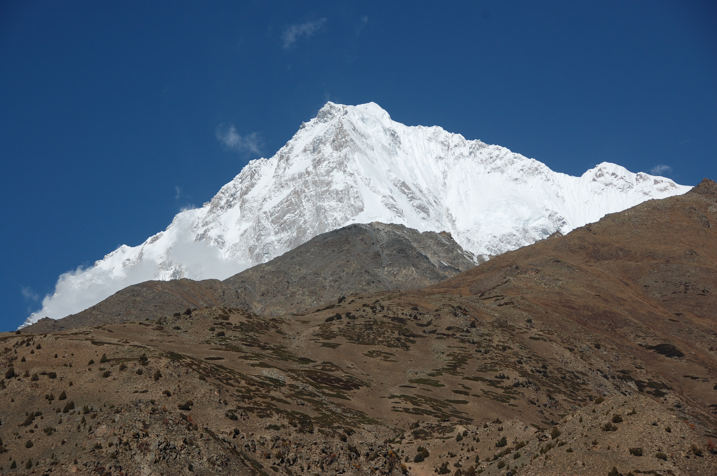 Nanga Parbat Rupal face